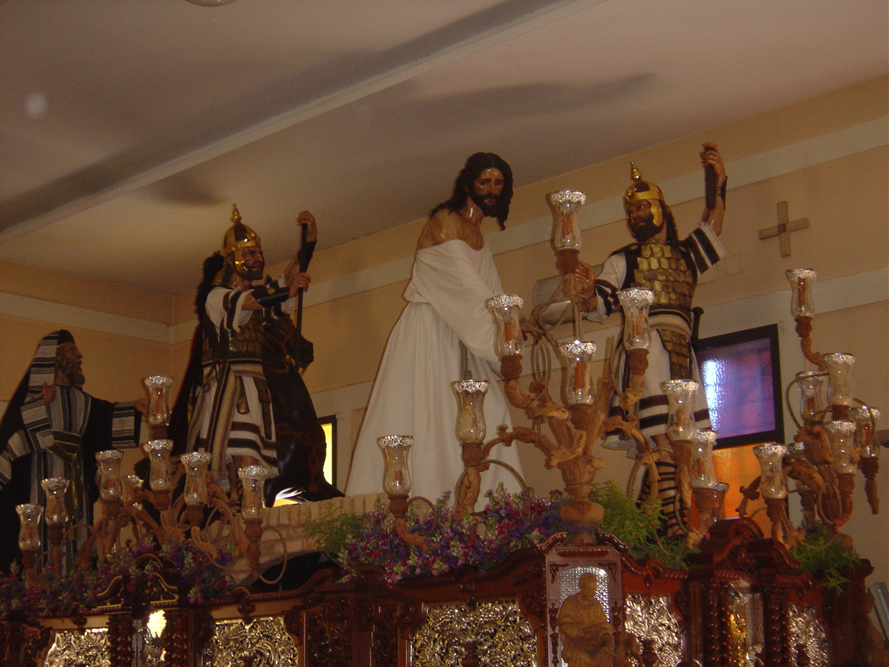 Jesús de la Esperanza en el Puente Cedrón, Semana Santa de Sevilla (España)